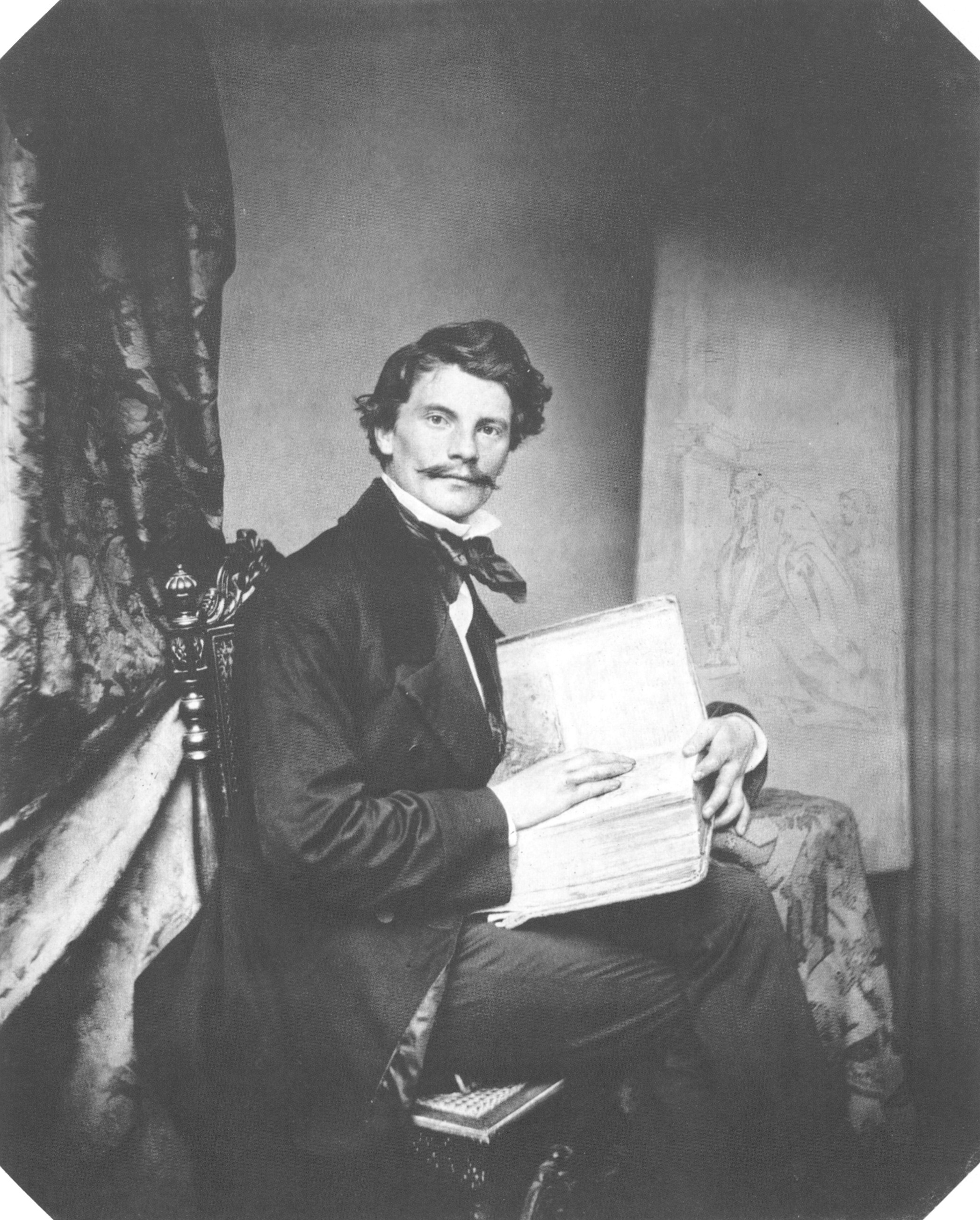 Carl von Piloty (1826-1886)